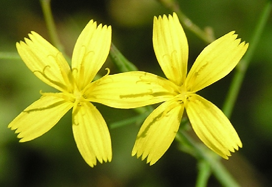 Mycelis muralis near the river Ahr (germany)